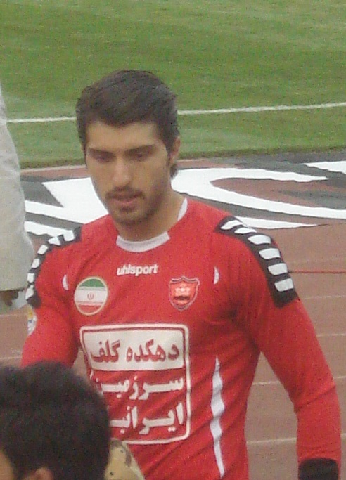 Karim Ansarifaard, Persepolis-Malavan match, 2012-13 Iran Pro League